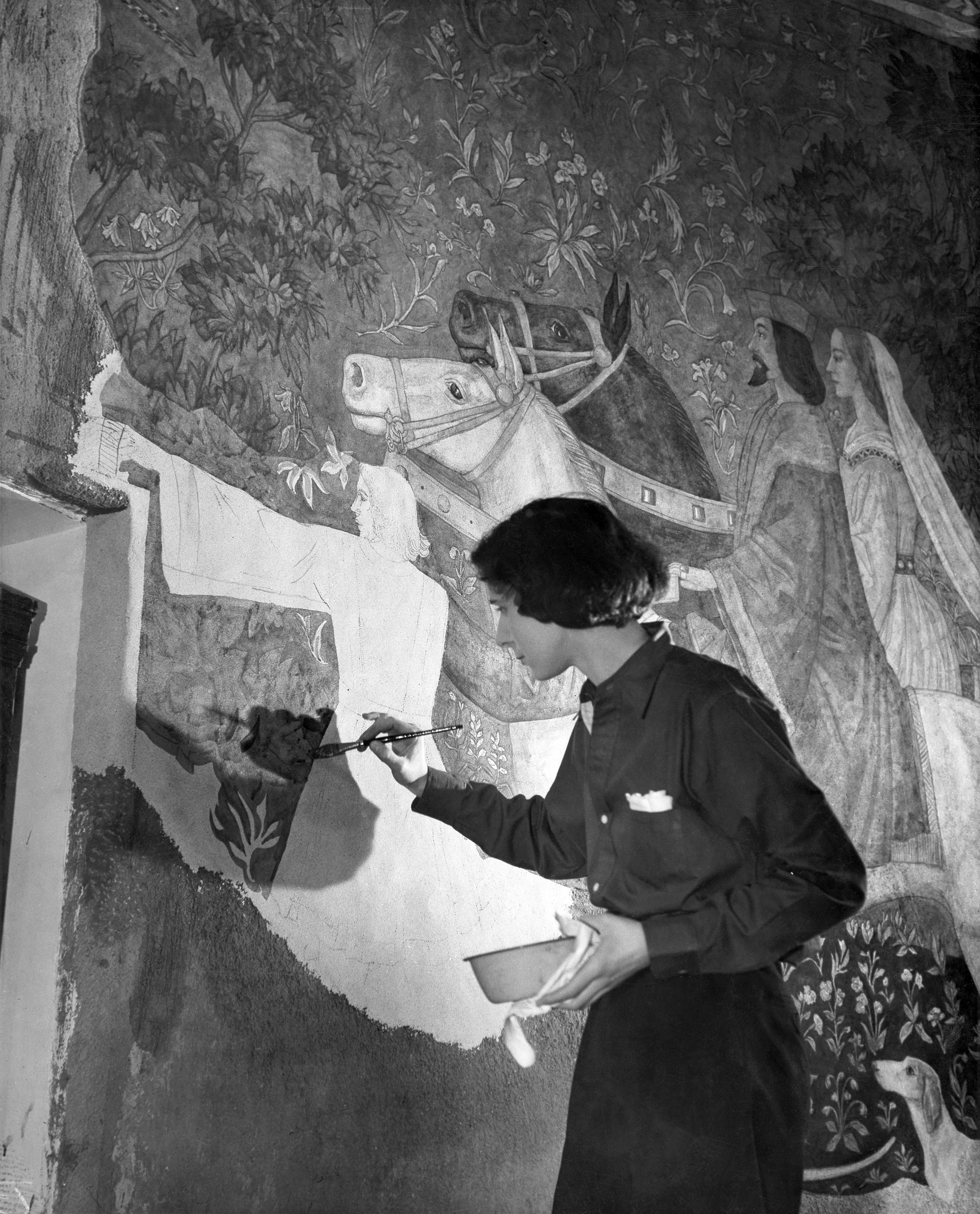 Photograph of Louise Brann of the WPA Federal Art Project, Westchester County, at work on a mural executed in true fresco for Mount Vernon Public Library, Mount Vernon, New York. Mount Vernon Public Library: The Fresco in the Exhibition Room (Rotunda) were executed by the local artist Louise Brann. They were inspired by the 15th century Gobelin Tapestry series Lady and the Unicorn that resides in the Cluny museum. The four panels created between January 1936 and October 1937 include "Autumn", "Education", "Occupation", "Winter", "Spring", and "Summer".